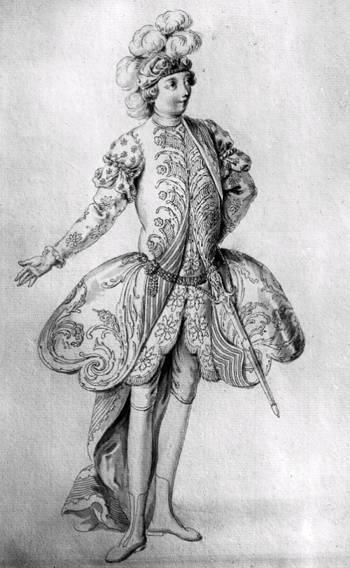 The soprano-castrato singer Giuseppe Belli shown in costume as Licida in the opera L'Olimpiade composed by Johann Adolph Hasse, scenery and costumes by Servandoni. (Dresden, 1756)